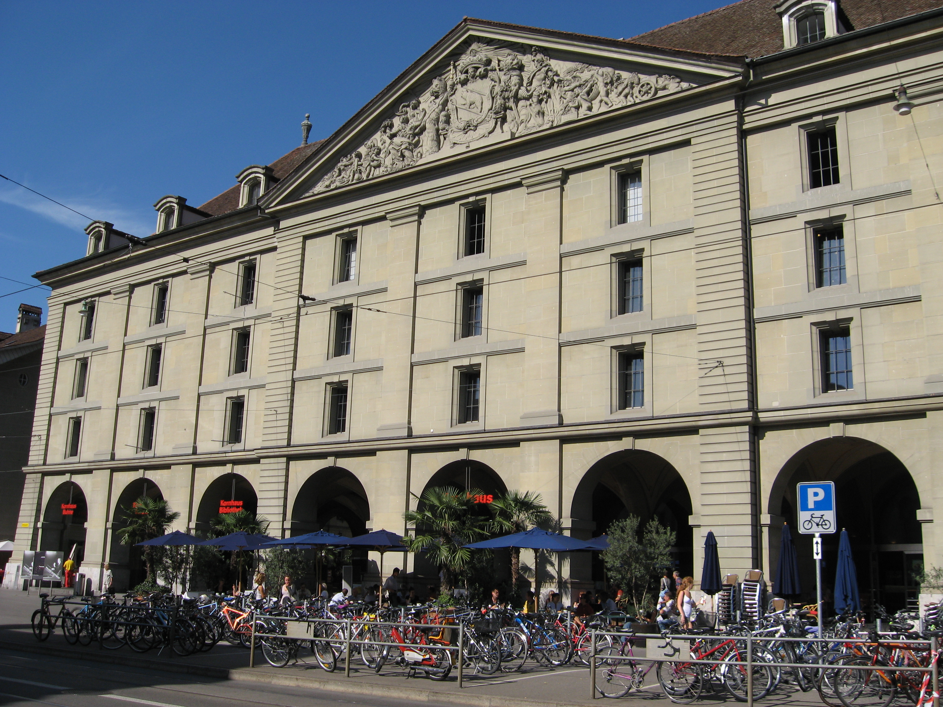 Kornhaus at Bern